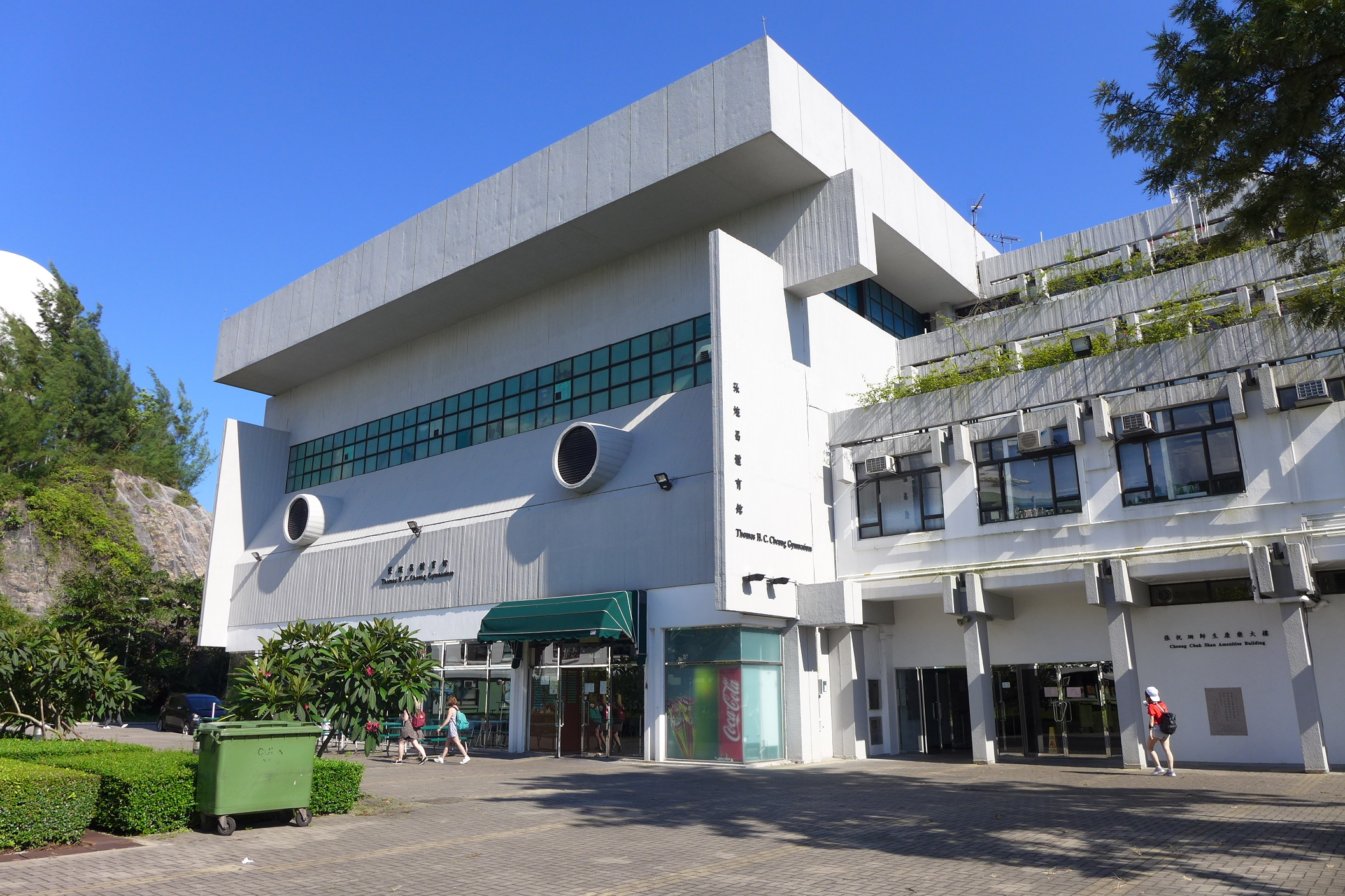 Thomas H.C. Cheung Gym